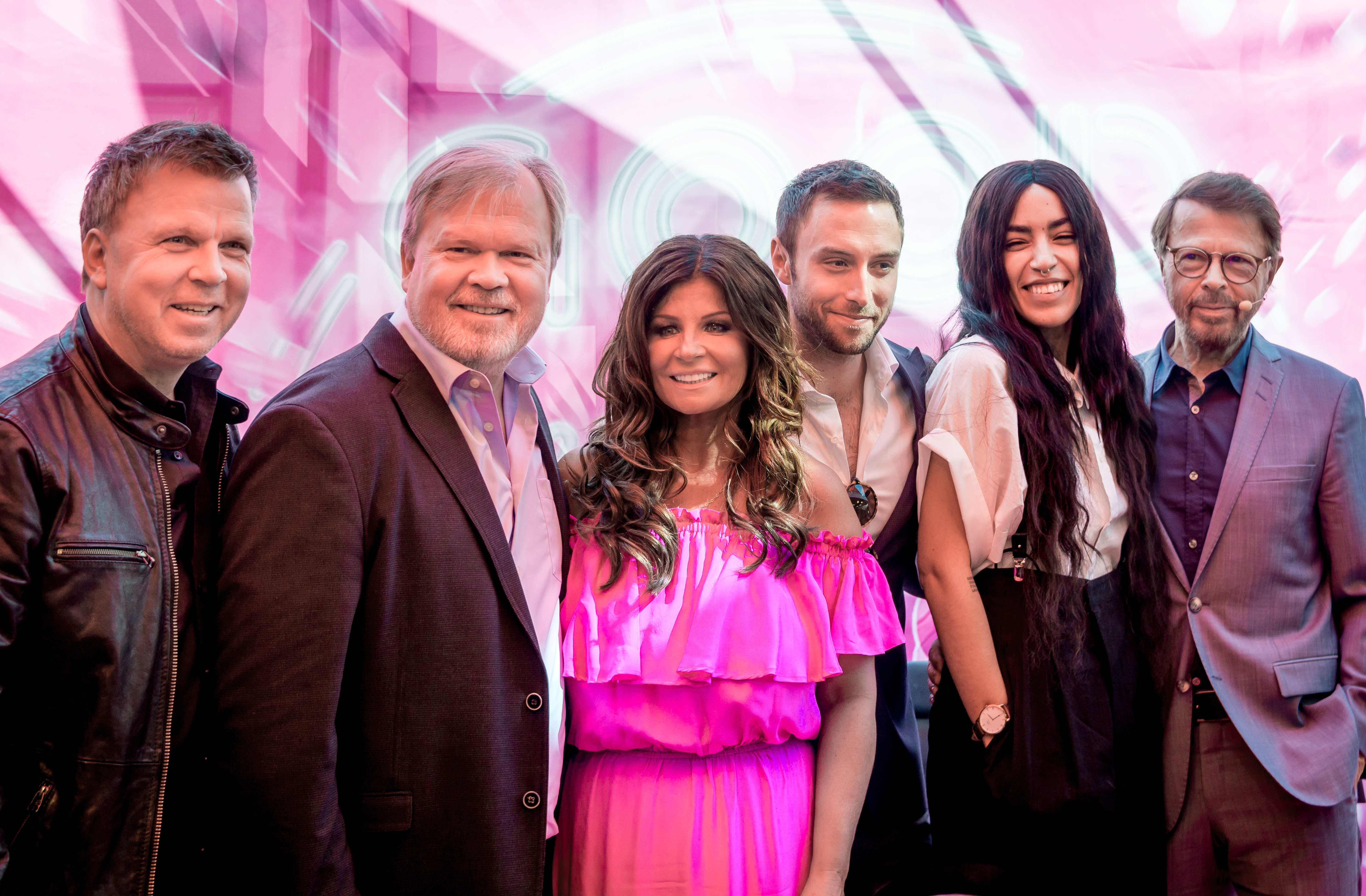 Swedish Eurovision winner ever presented on ABBA the Museum in conjunction with the opening of the exhibition 'Good Evening Europe!' in May 7, 2016. From left: Richard och Per Herrey (Herreys 1984), Carola Häggkvist (1991), Måns Zelmerlöw (2015), Loreen (2012) and ABBAs Björn Ulvaeus (1974).